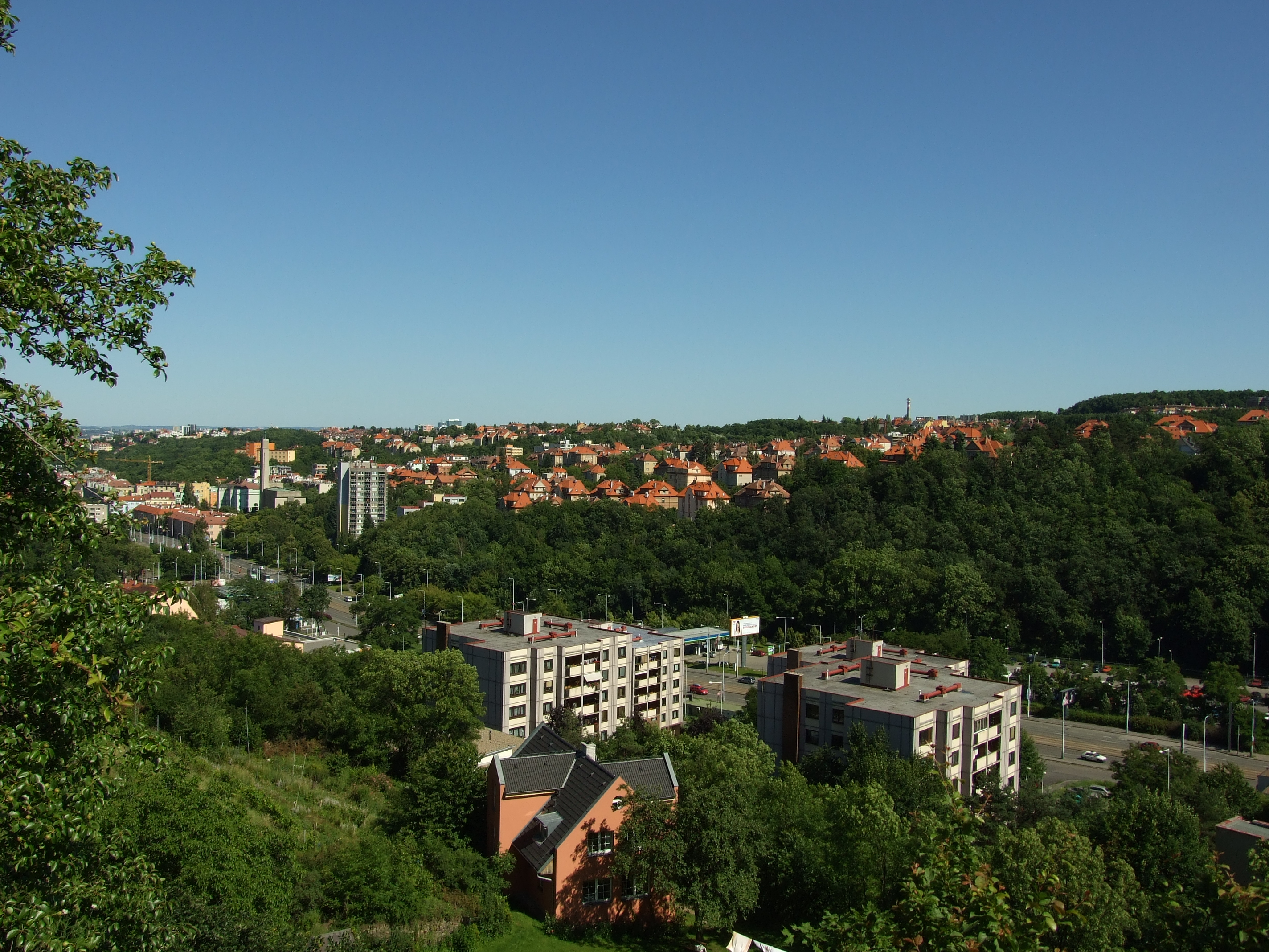 Košíře, a part of Prague. Nature, houses and people of this part of Prague, CZhelp